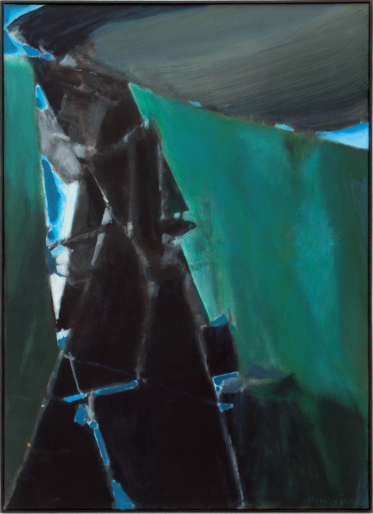 Miroslav-Štolfa,-Tower,-2010,-acryl,-canvas,-100x70-cm